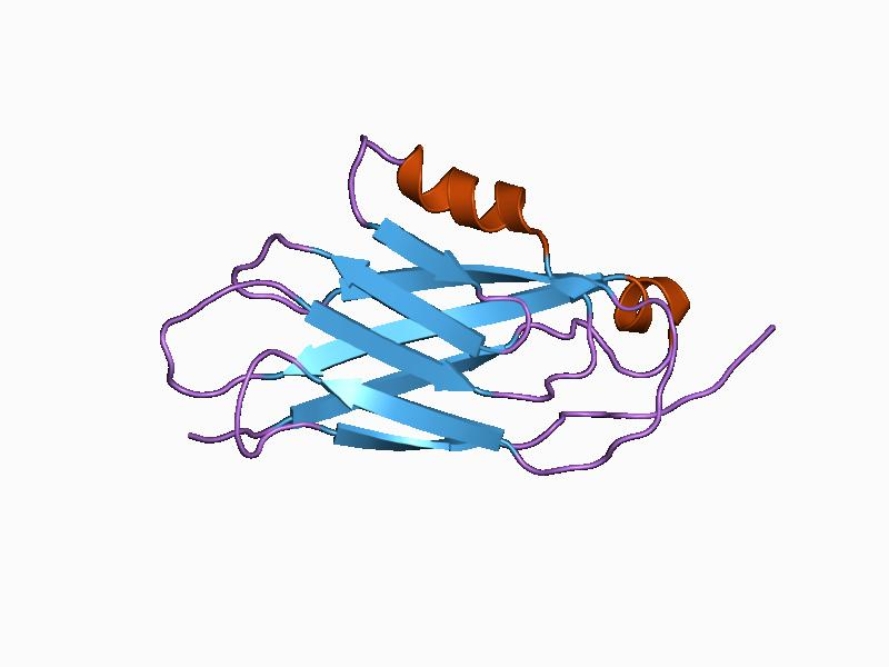 Cartoon representation of the molecular structure of protein registered with 1bv8 code.